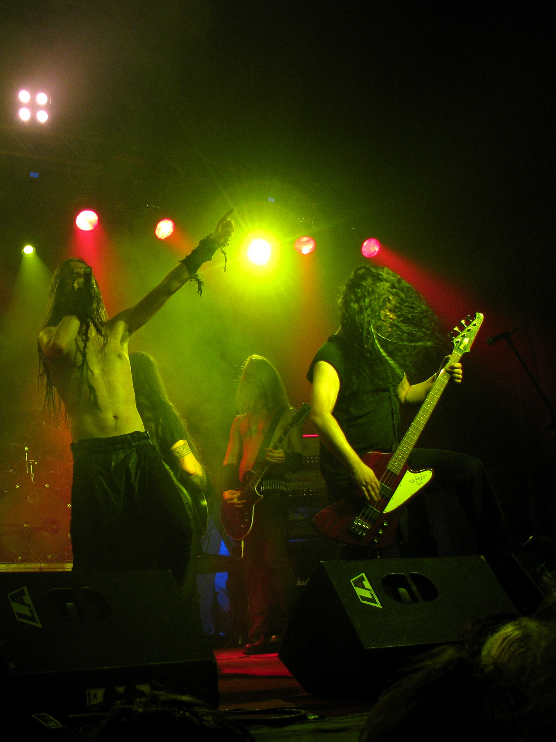 Finntroll - Live in Kiev, 2009-11-18